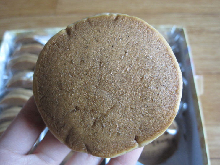 chalbori-ppang (glutinous barley bread)